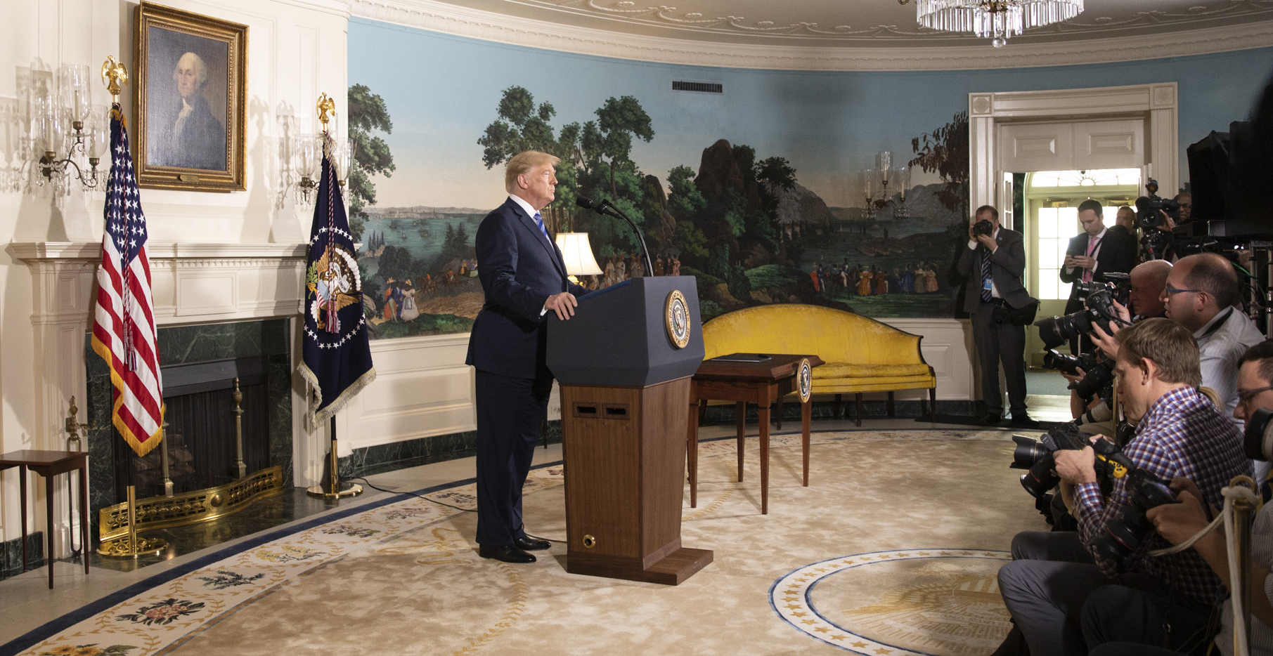 President Donald J. Trump delivers remarks on the Joint Comprehensive Plan of Action